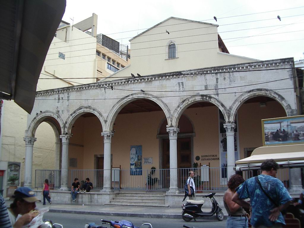 Esglesia a Heràkleion, foto feta per J. Ollé l'agost del 2005 St. Mark basilica in Heraklion, Greece built in 1239 at then "Plazza delle Biade". During the Venetian occupation of Crete it belonged to the Dukes of Crete and served as the cathedral of all Crete. Currently it houses the Municipal Art Gallery of the municipality of Heraklion. Source of the above information: Municipality of Heraklion (in Greek).